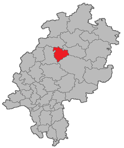 Map of the district court Kirchhain in Hesse